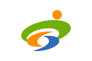 Flag of Yasugi Shimane